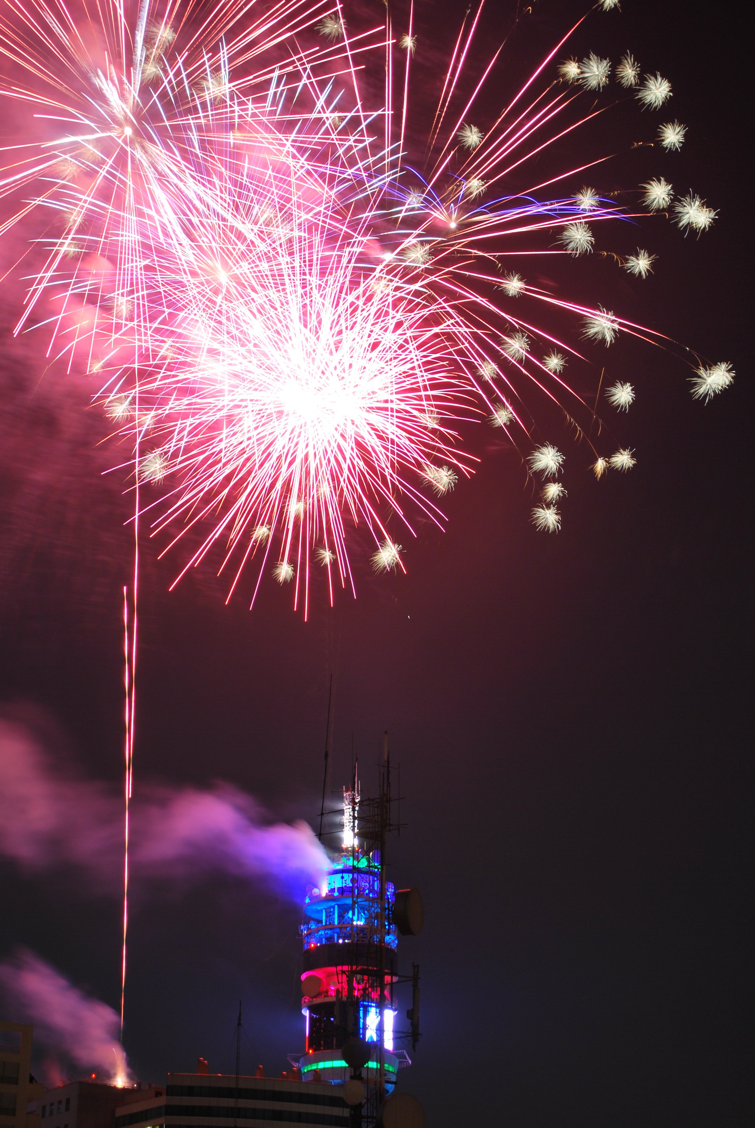 Fireworks on the Entel Tower, new year 2010